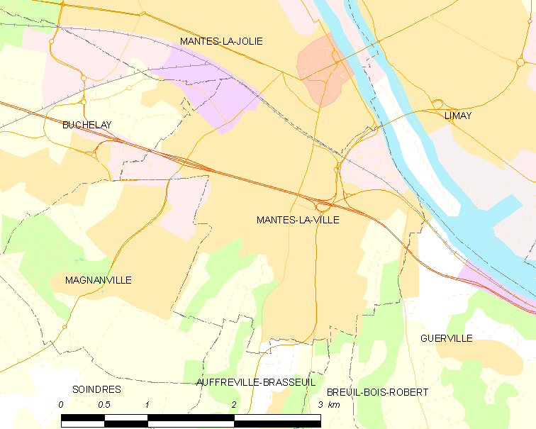 Map of French municipality Mantes-la-Ville